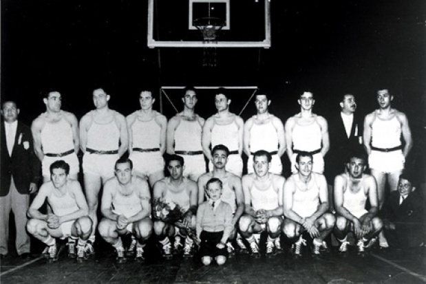 The Argentina national basketball team that won the 1950 FIBA World Championship.